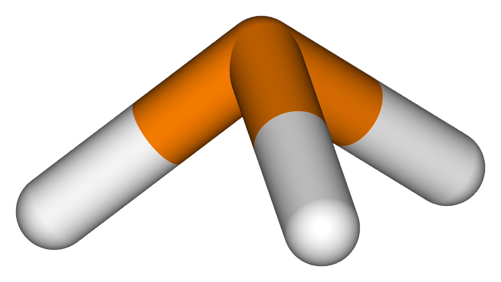 Phosphine-3D-sticks